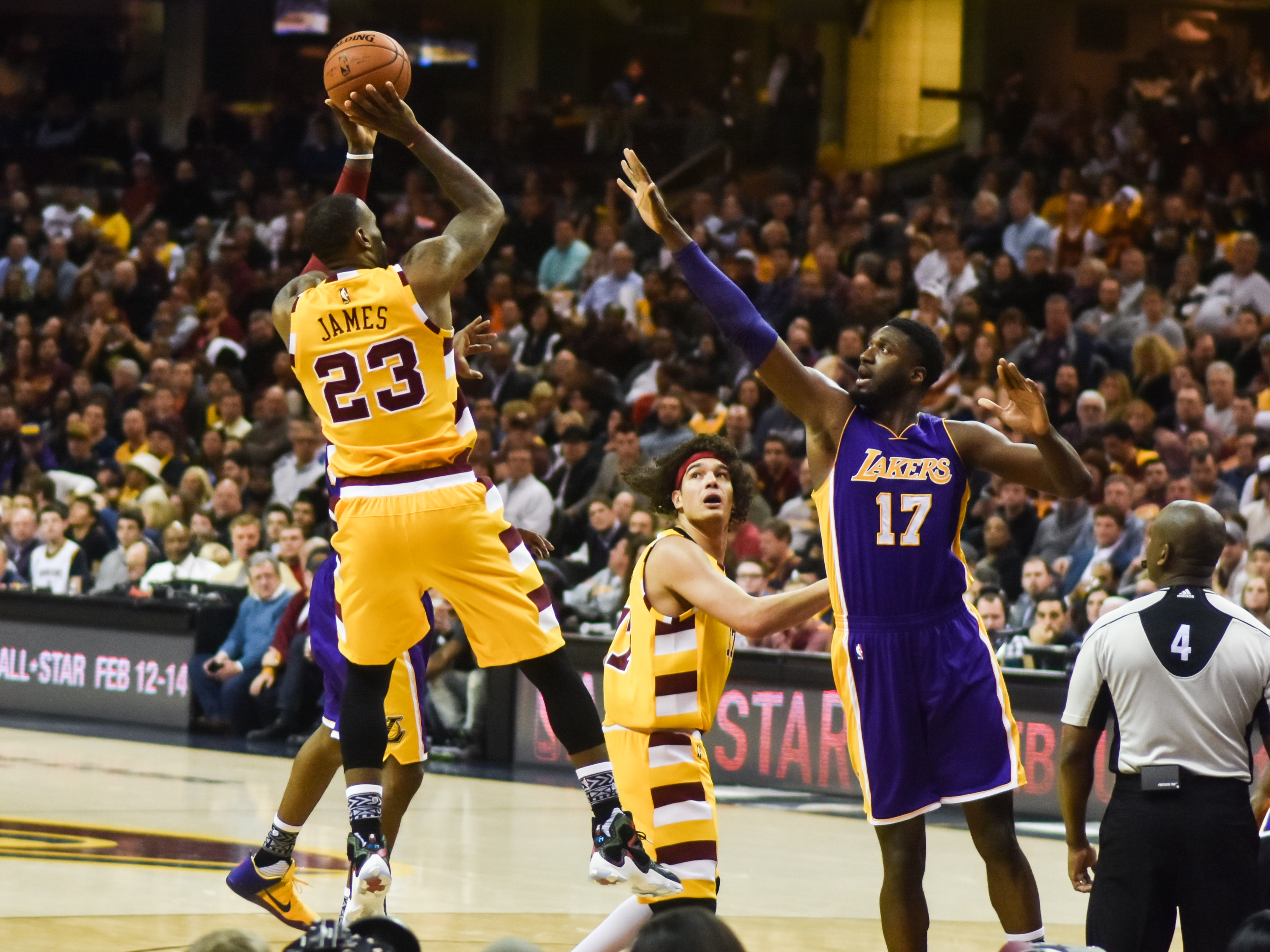 lebron